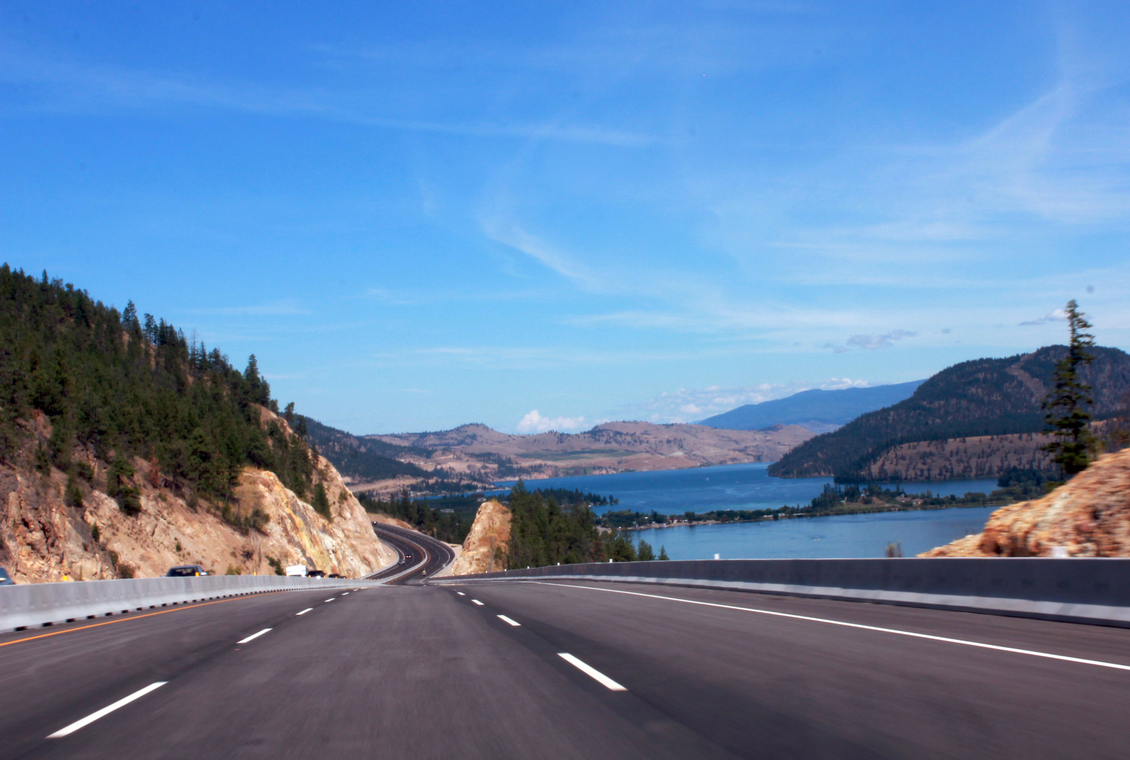 The New Highway upgrade at Lake Country Okanagan Valley, BC, Canada